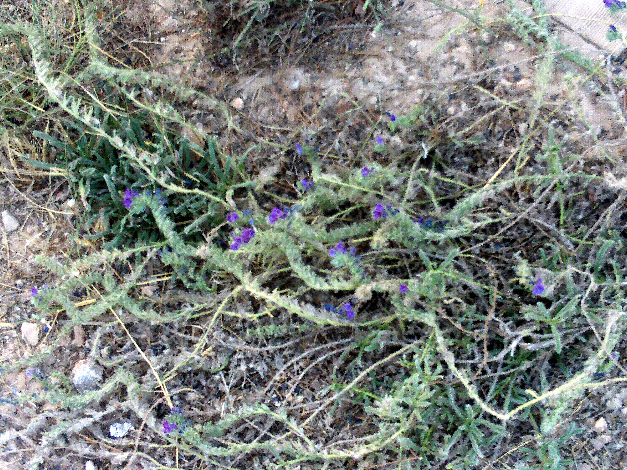 Echium sabulicola Habitus in Parque Natural de las Lagunas de La Mata y Torrevieja Spain